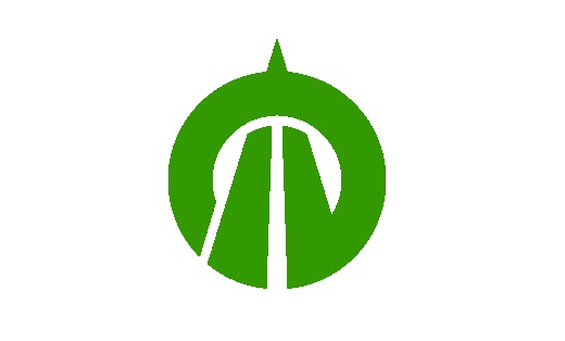 Flag of Urugi Nagano